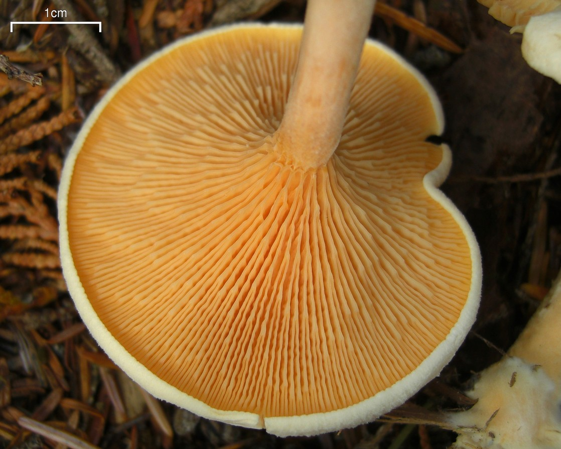 Hygrophoropsis aurantiaca 20090926.12 Canada, BC, Incomappleux Inland Rainforest Apparently this species is highly variable in color from almost white (like this) to deep danger-orange. All of the above were present in this one little hemlock grove.